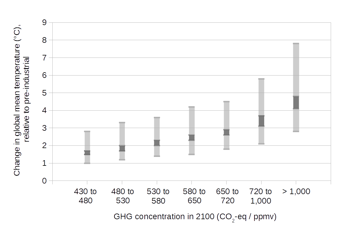 This graph shows projected increases in global mean temperature (relative to pre-industrial times) in the year 2100, for a range of scenarios. Pre-industrial times are approximated as the years 1850 to 1900. 7 sets of temperature projections are given for different atmospheric concentrations of greenhouse gases (measured in parts per million of carbon dioxide equivalents) in the year 2100. On the graph, the dark grey area of the bar shows 10th to 90th percentile range of median estimates, while the light grey area of the bar shows the 16th to 84th percentile range of the full distribution of results. Graph data is tabulated in a later section. References IPCC AR5 WG3; Edenhofer, O., et al., ed. (2014). Climate Change 2014: Mitigation of Climate Change. Contribution of Working Group III (WG3) to the Fifth Assessment Report (AR5) of the Intergovernmental Panel on Climate Change (IPCC). Cambridge University Press.. Archived 29 June 2014. Data are taken from Table SPM.1, in: Summary for Policymakers, p.13 (archived 29 June 2014). Explanation of the projections is given in Figure 6.13, in: Chapter 6: Assessing Transformation Pathways, p.34 (archived 29 June 2014).